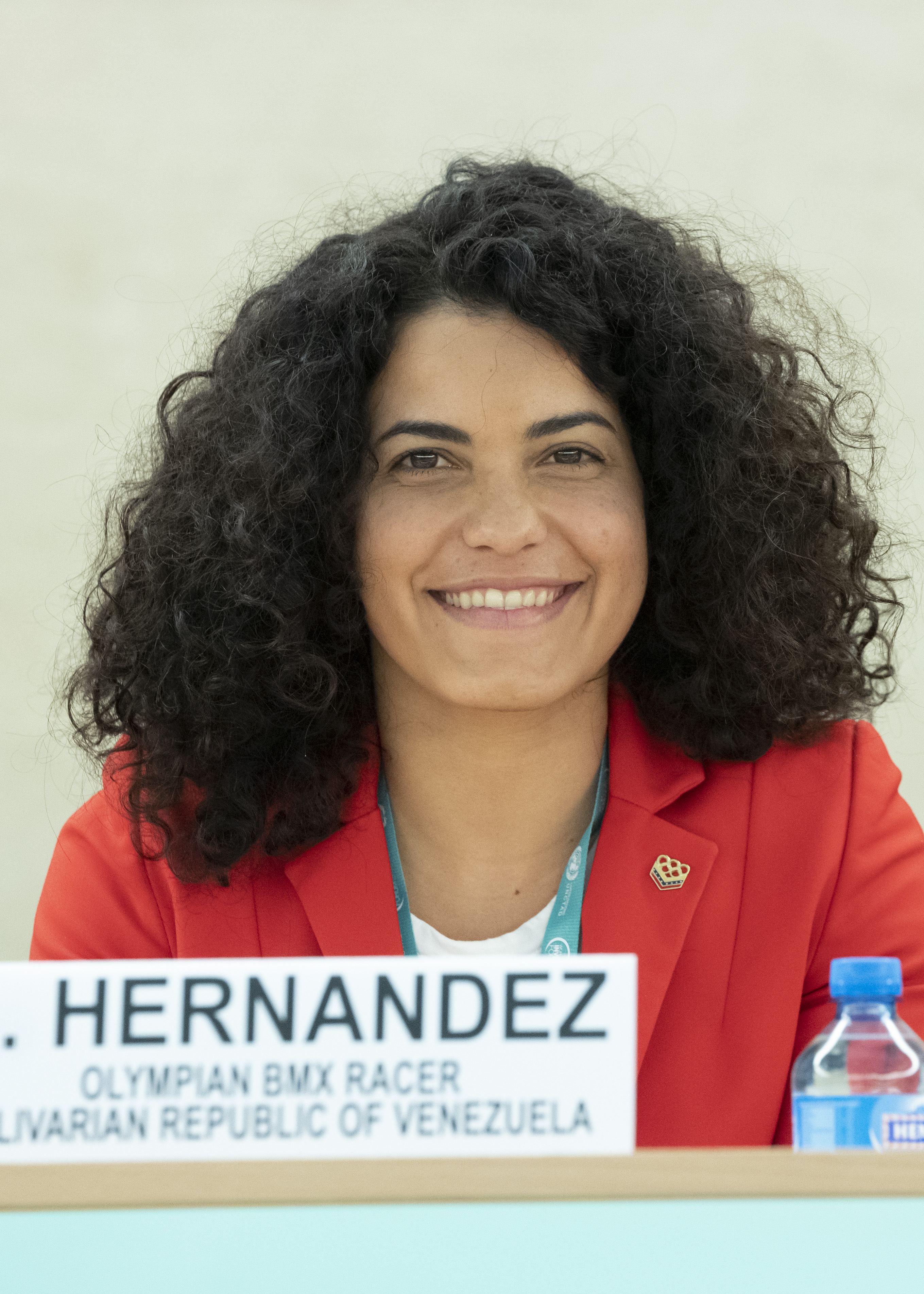 Samantha Murray (UK), World Champion and Olympic Medalist, Pentathlon at a Panel Investing in Sport SDGs during the Word Investment Forum 2018. 23 october 2018. UNCTAD Photo/Jean Marc Ferré